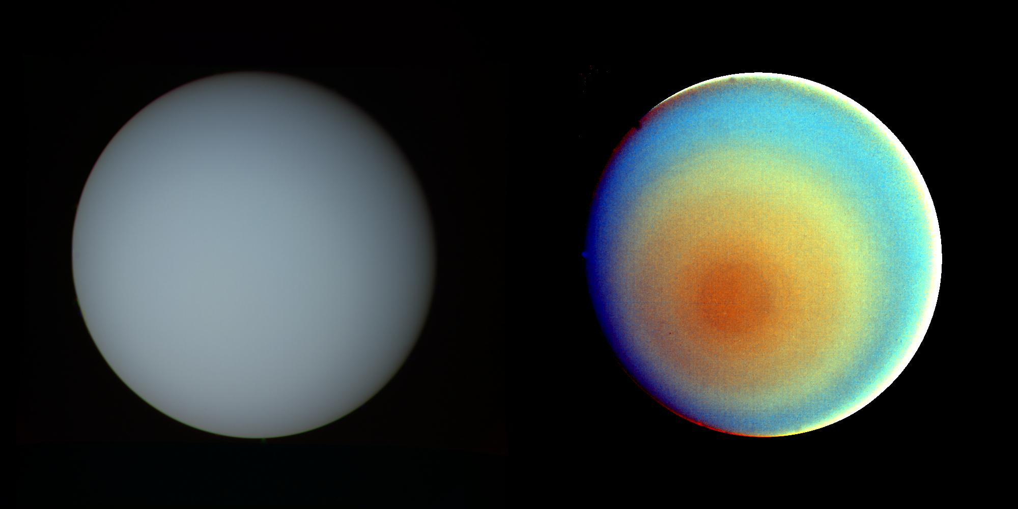 These two pictures of Uranus -- one in true color (left) and the other in false color -- were compiled from images returned Jan. 17, 1986, by the narrow-angle camera of Voyager 2. The spacecraft was 9.1 million kilometers (5.7 million miles) from the planet, several days from closest approach. The picture at left has been processed to show Uranus as human eyes would see it from the vantage point of the spacecraft. The picture is a composite of images taken through blue, green and orange filters. The darker shadings at the upper right of the disk correspond to the day-night boundary on the planet. Beyond this boundary lies the hidden northern hemisphere of Uranus, which currently remains in total darkness as the planet rotates. The blue-green color results from the absorption of red light by methane gas in Uranus' deep, cold and remarkably clear atmosphere. The picture at right uses false color and extreme contrast enhancement to bring out subtle details in the polar region of Uranus. Images obtained through ultraviolet, violet and orange filters were respectively converted to the same blue, green and red colors used to produce the picture at left. The very slight contrasts visible in true color are greatly exaggerated here. In this false-color picture, Uranus reveals a dark polar hood surrounded by a series of progressively lighter concentric bands. One possible explanation is that a brownish haze or smog, concentrated over the pole, is arranged into bands by zonal motions of the upper atmosphere. The bright orange and yellow strip at the lower edge of the planet's limb is an artifact of the image enhancement. In fact, the limb is dark and uniform in color around the planet.